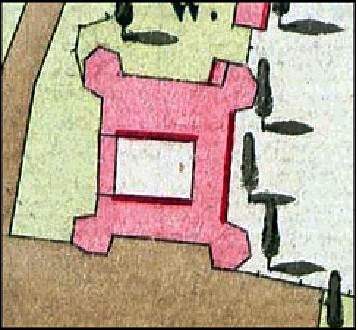 This is how the castle in Grzymalow was depicted on the cadastral map of the town in 1828.